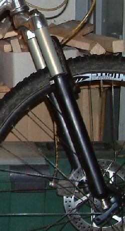 bicycle suspension fork